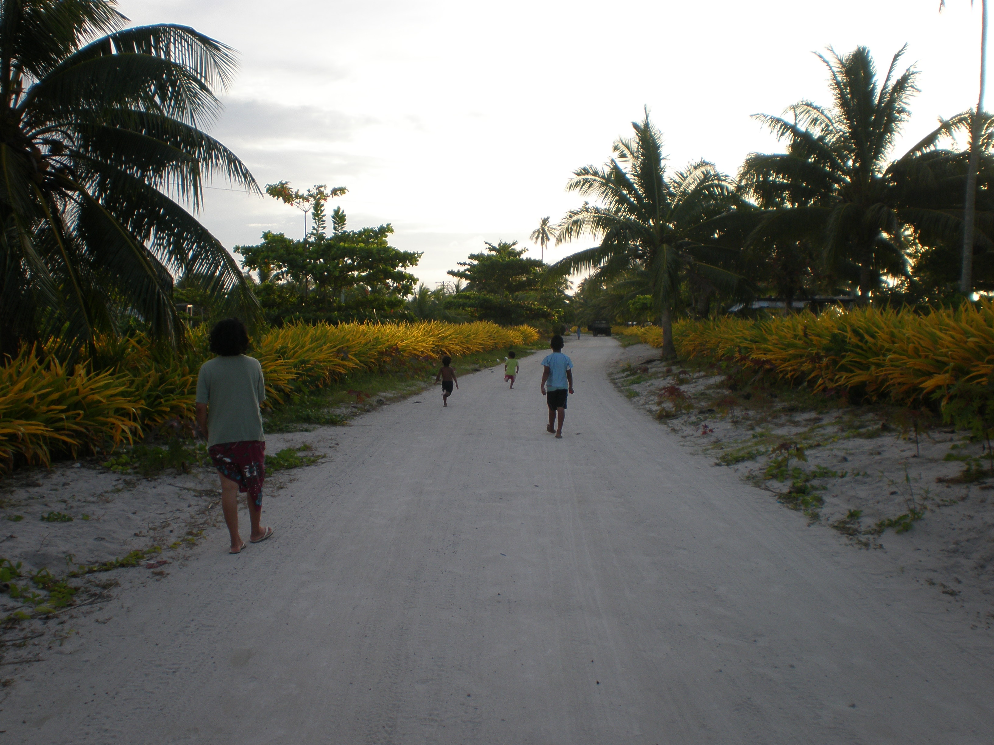 Falealupo village main road in late afternoon, Savai'i, Samoa. Woman and children taking a stroll in the afternoon.